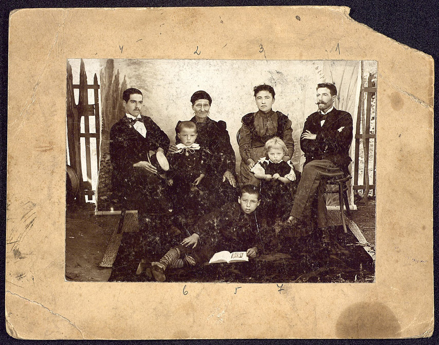 Georgi Tishinov 1860 - 1904 and Family circa 1900 - 1901